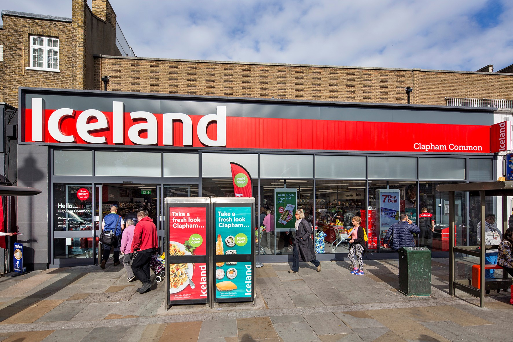 A newer style Iceland store in Clapham Common, London.